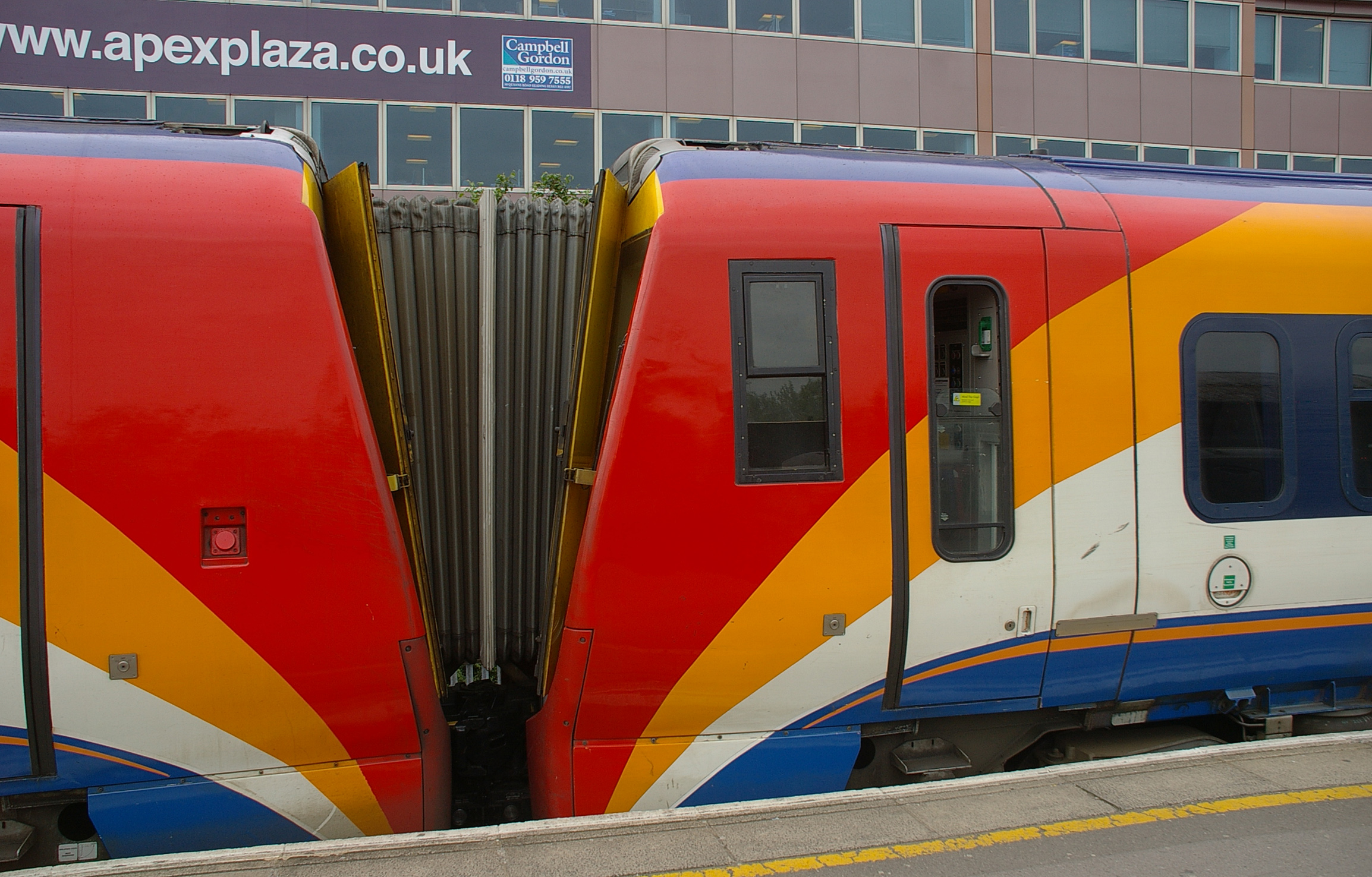 458007 and 458023 at Reading railway station. I do like the colours on these SWT units.